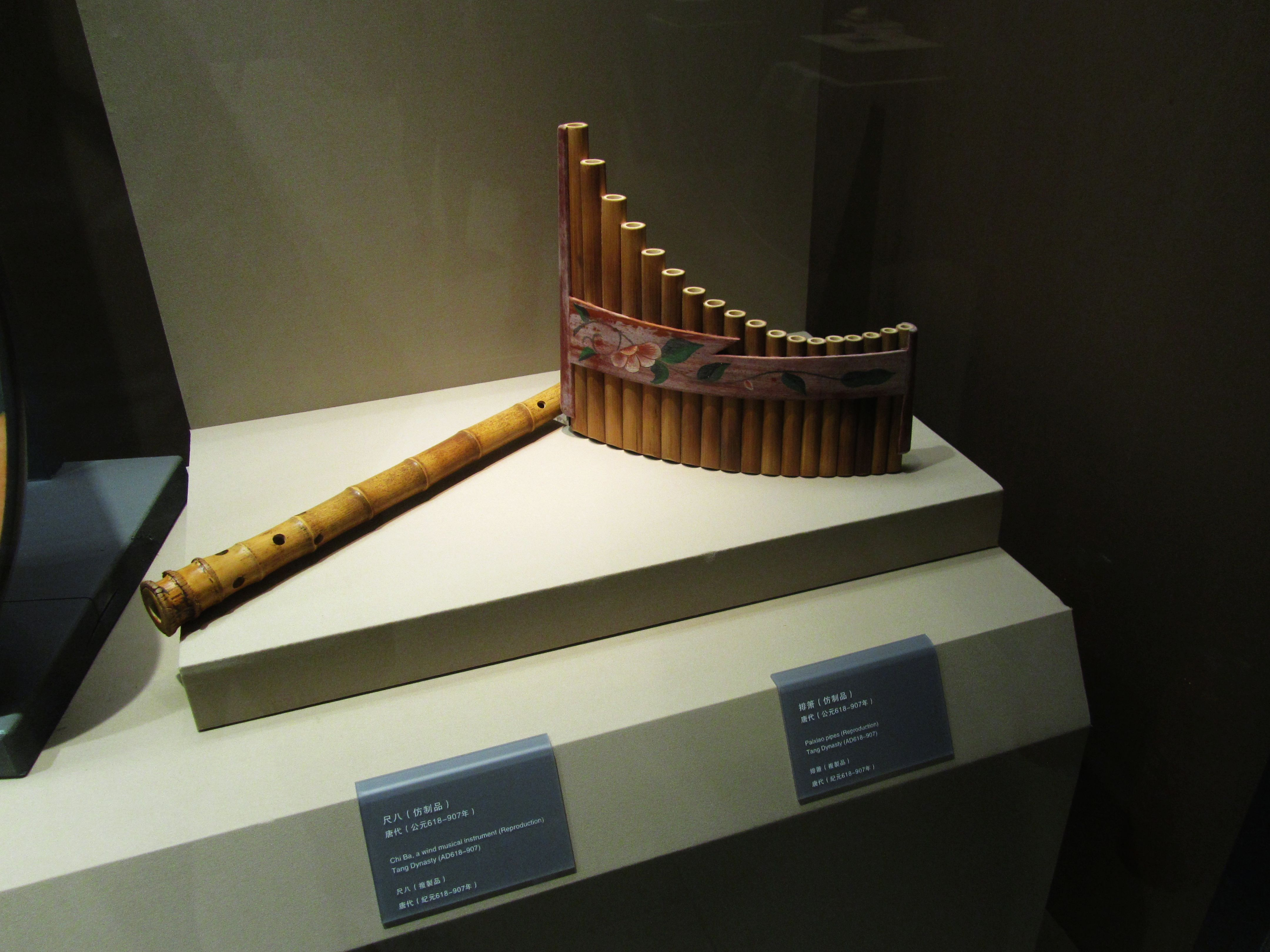 Reproduction of chiba (bamboo flute) and paixiao of Tang dynastie at Tang West Market Museum, at Xi'an